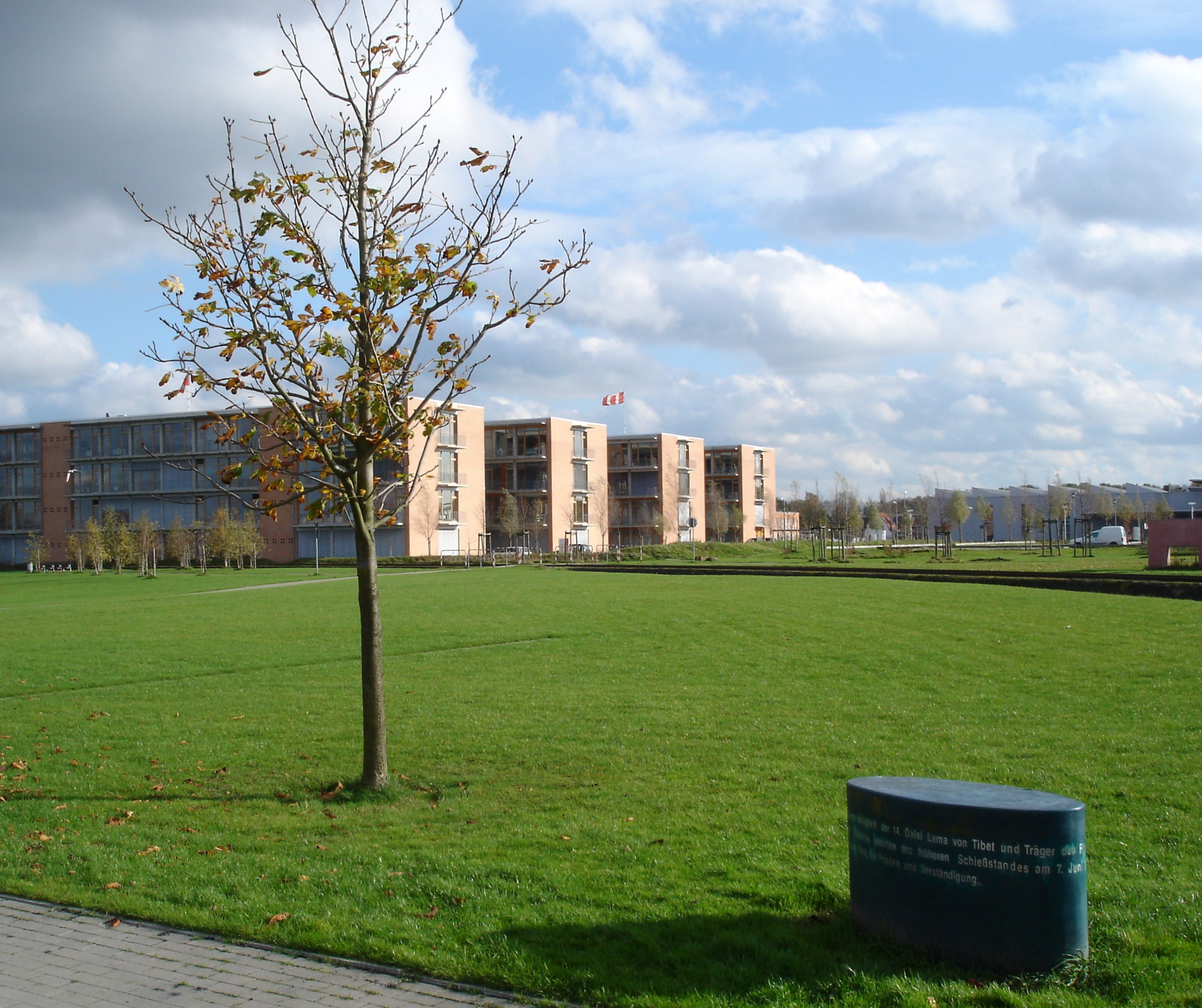 Loddenheide in the city of Münster (Westphalia), Germany: Tree planted by Dalai Lama in the "Friedenspark"